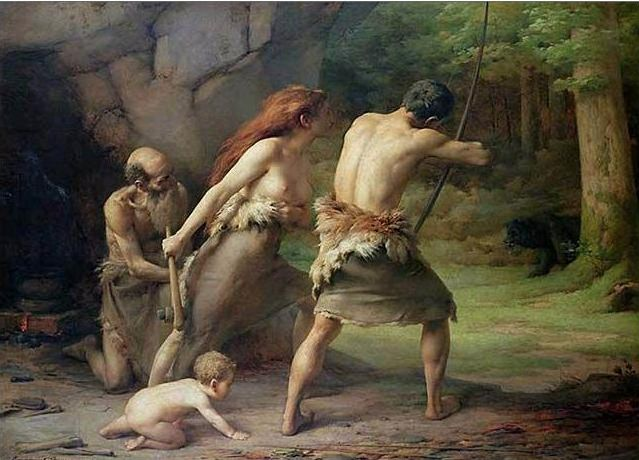 Prehistoric Man Hunting Bears